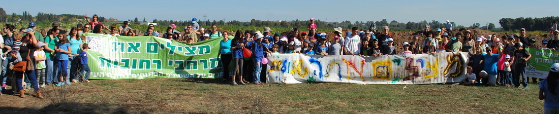 East Rehovot fields